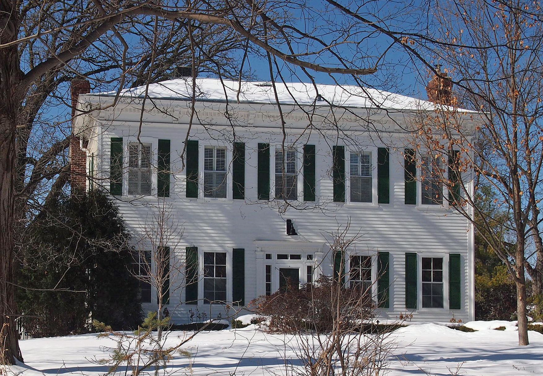 William and Catherine Davern Farm House, 1173 Davern St S, St Paul, Minnesota, USA. Viewed from the east-southeast.